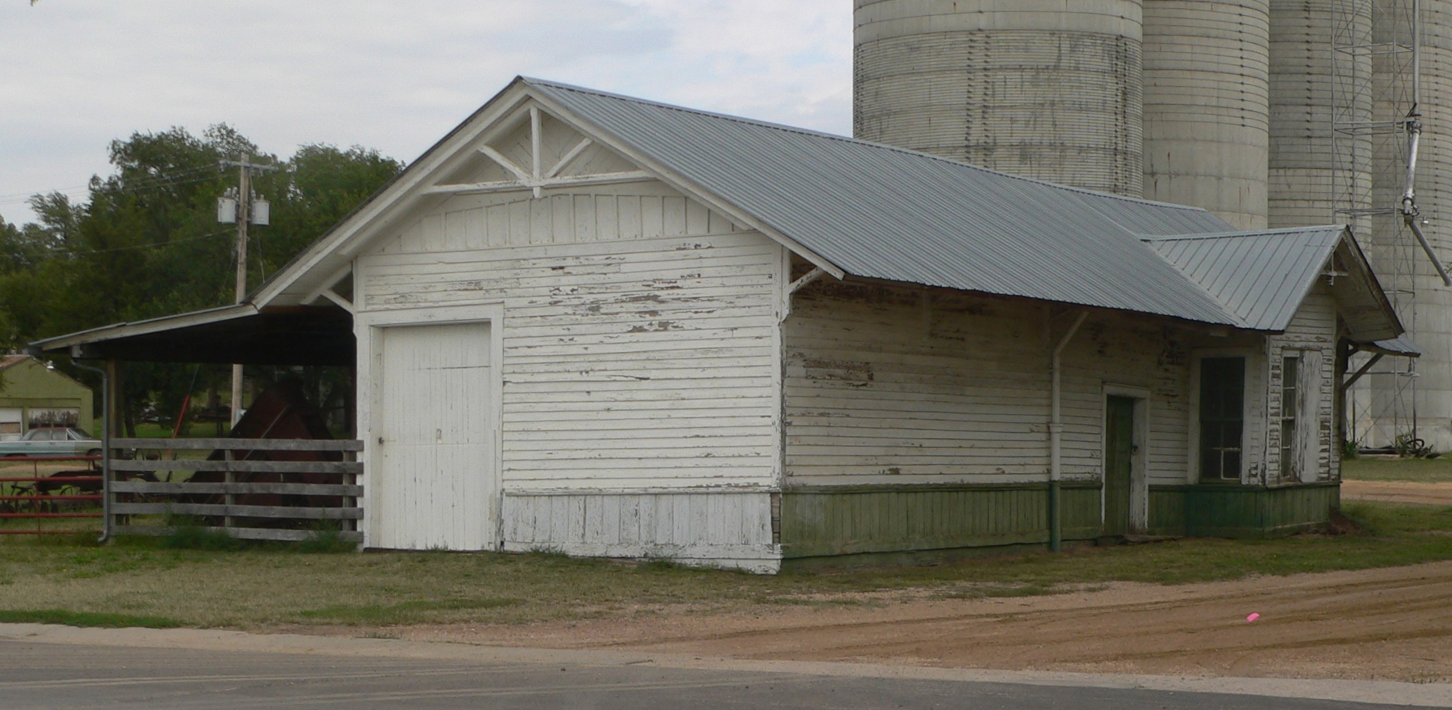 Union Pacific depot in Sylvan Grove, Kansas; seen from the southwest.